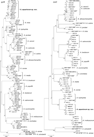 Phylogeny of Aeromonas